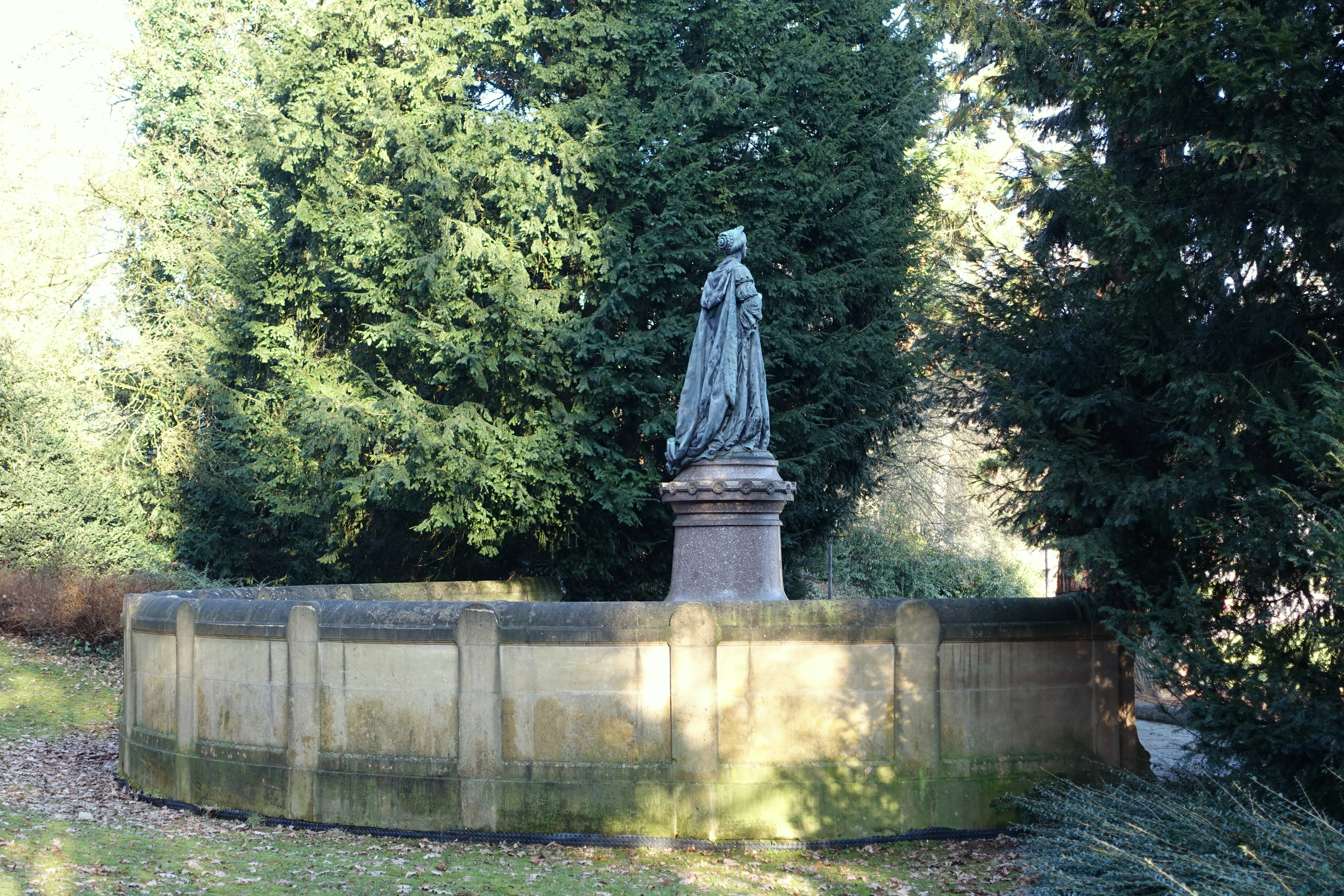 Memorial to Princess Amalia of Saxe-Weimar-Eisenach by Jean-Antoine Injalbert, in the Parc Amélie - Luxembourg City, Luxembourg. Inscribed « A la princesse Henri des Pays-Bas 1830-1872 ». This artwork is in the public domain because the artist died more than 70 years ago.